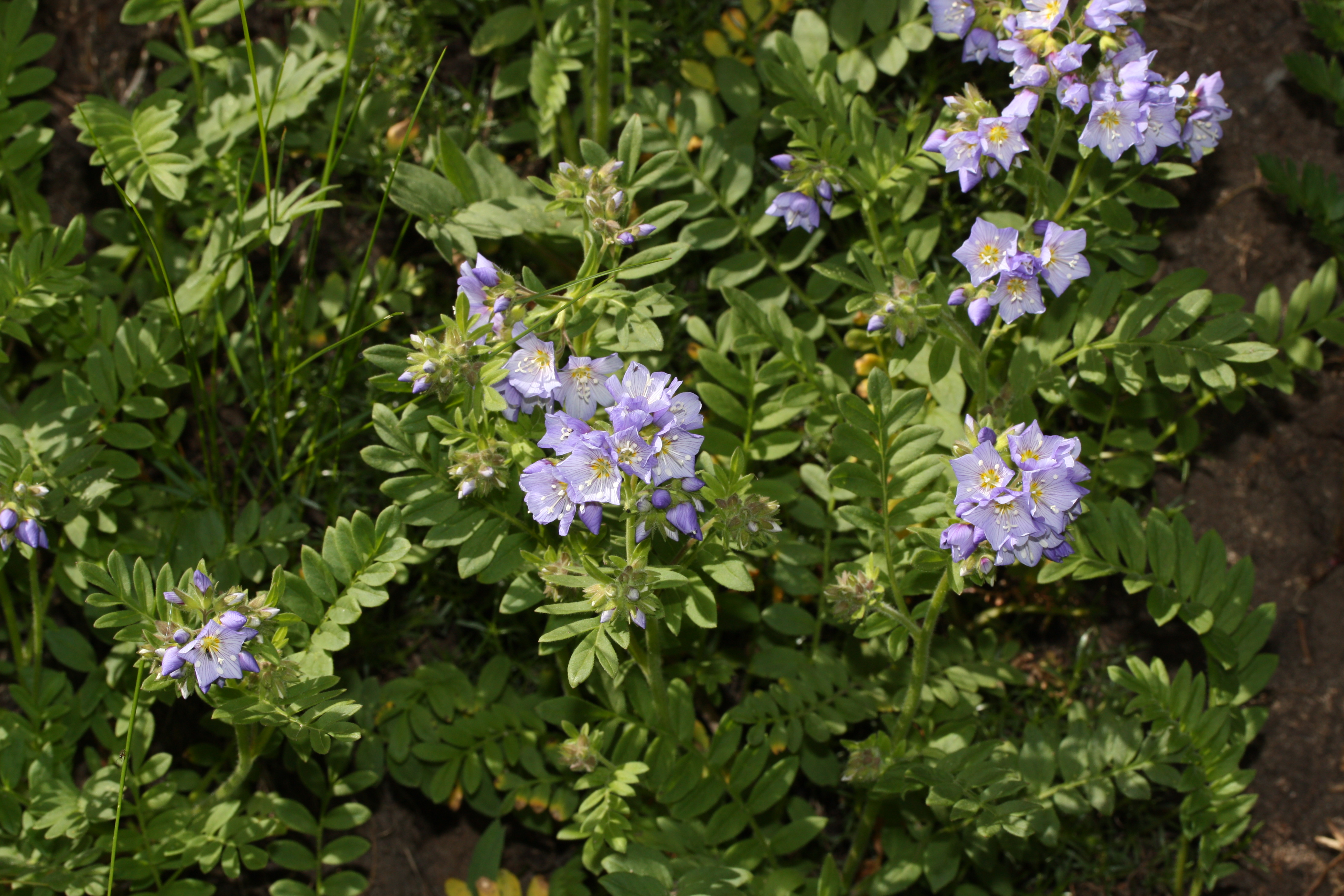 Moving Polemonium, Low Jacob's-ladder